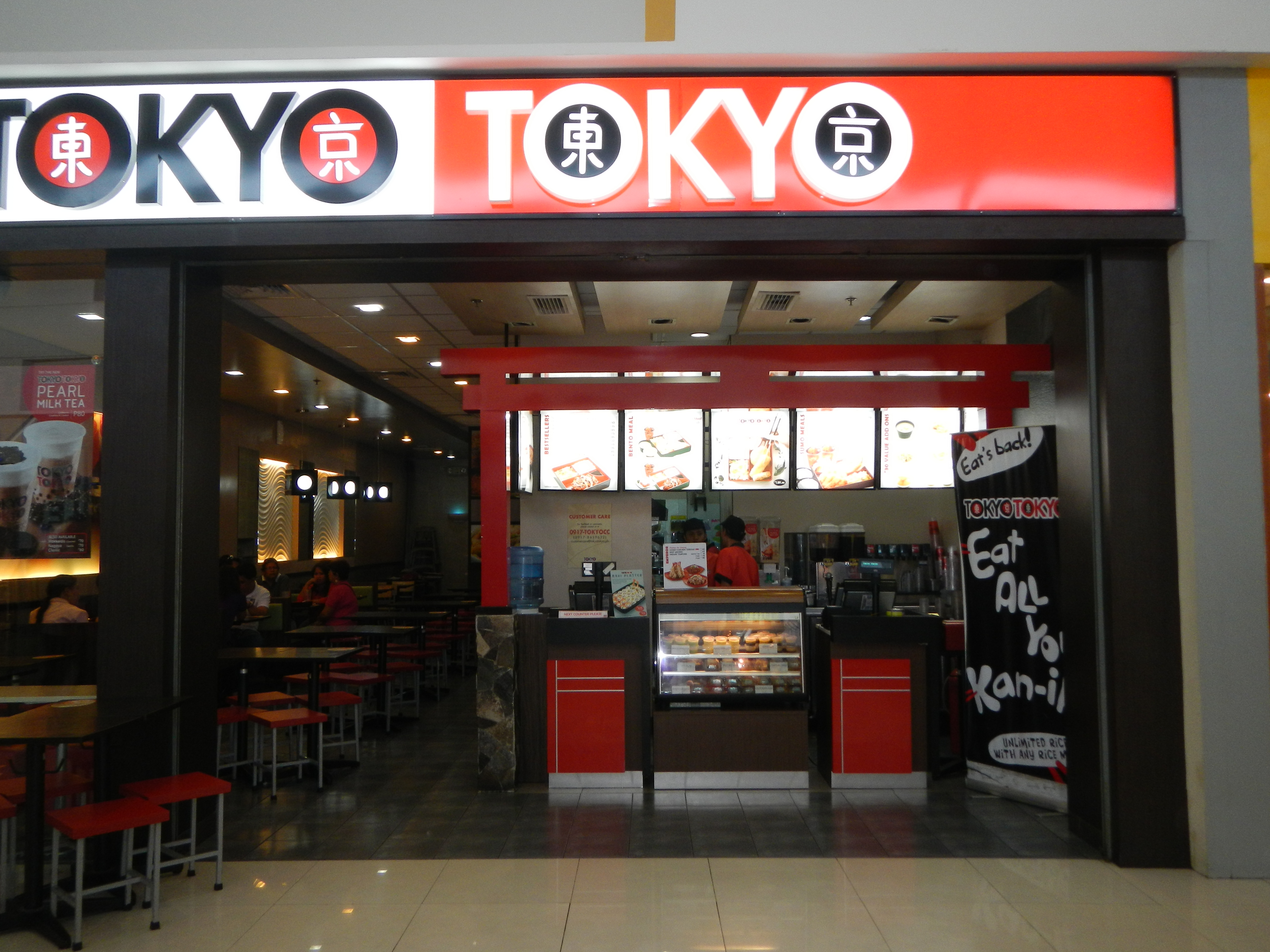 Tokyo Tokyo[1]SM City Baliwag